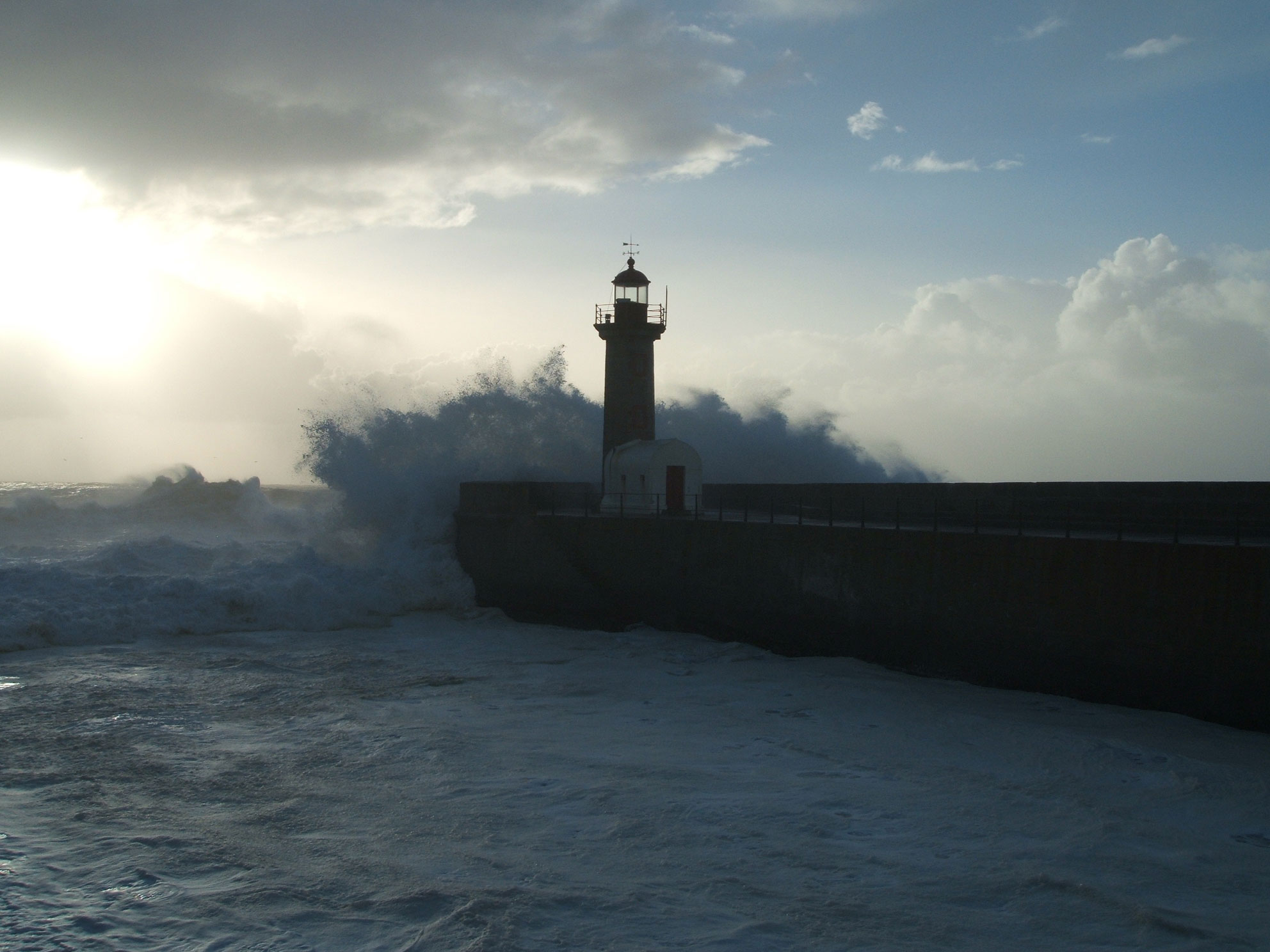 Felgueiras Light at Felgueiras Pier in storm. North pier of River Douro mouth, at Porto, Portugal